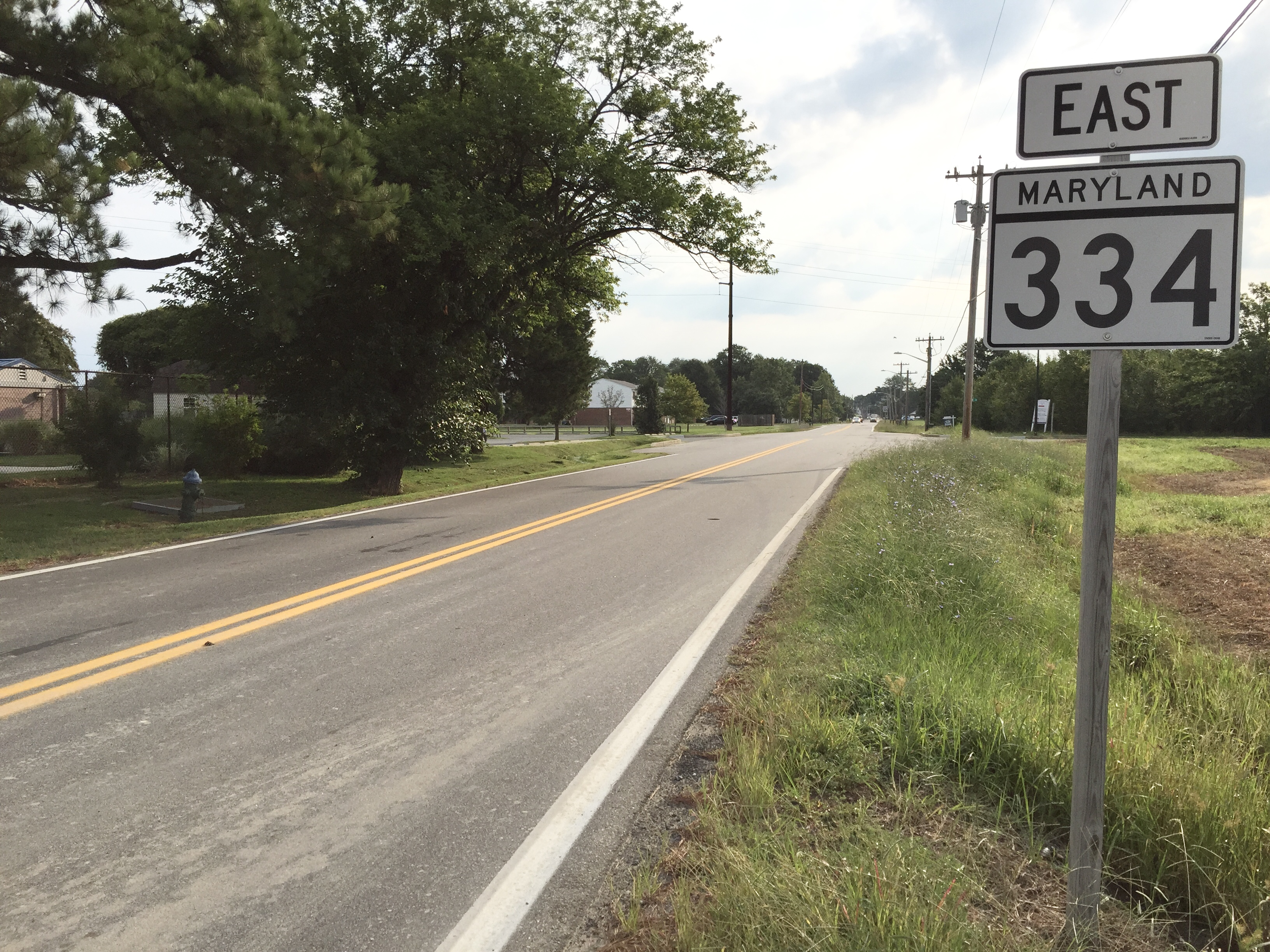 View east along Maryland State Route 334 (Port Street) at Maryland State Route 322 (Easton Parkway) in Easton, Talbot County, Maryland